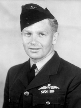 United Kingdom: England, Greater London, London. Studio portrait of O35392 Squadron Leader Andrew William 'Nicky' Barr, RAAF, MC, DFC and Bar.